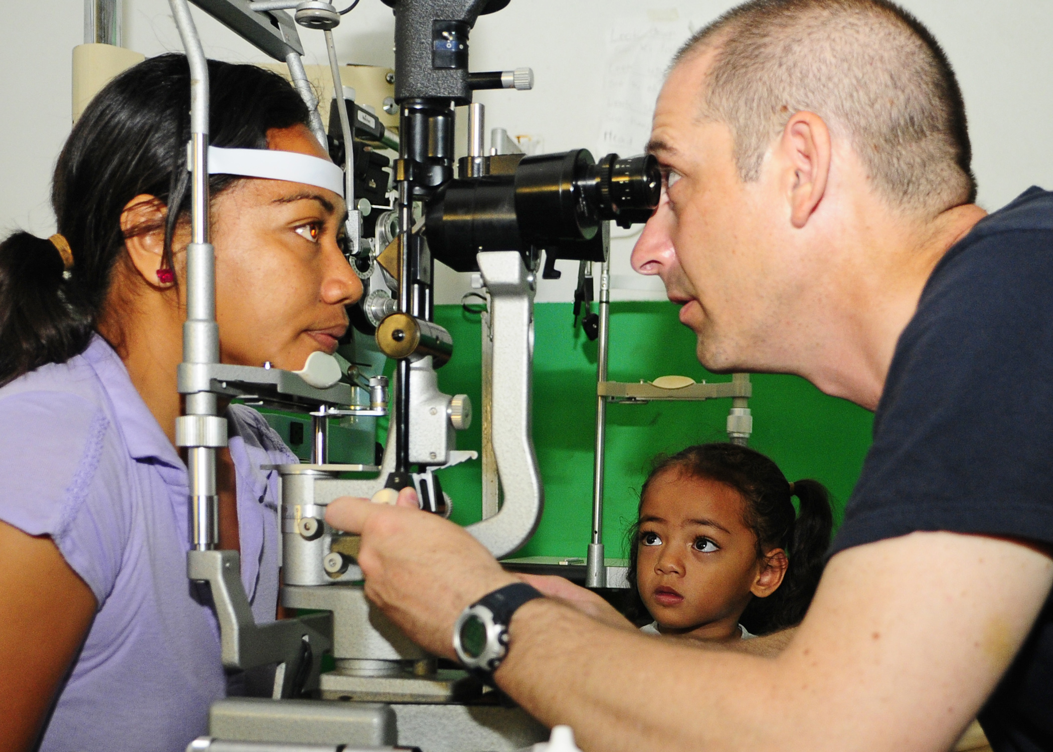 VAVA'U, Tonga (April 20, 2011) Lt. Cmdr. Brian Hatch examines a patient during a Pacific Partnership 2011 medical community service event. Pacific Partnership is a five-month humanitarian assistance initiative that will make port visits to Tonga, Vanuatu, Papua New Guinea, Timor-Leste, and the Federated States of Micronesia. (U.S. Air Force photo by Airman 1st Class Haleigh Greer/Released)